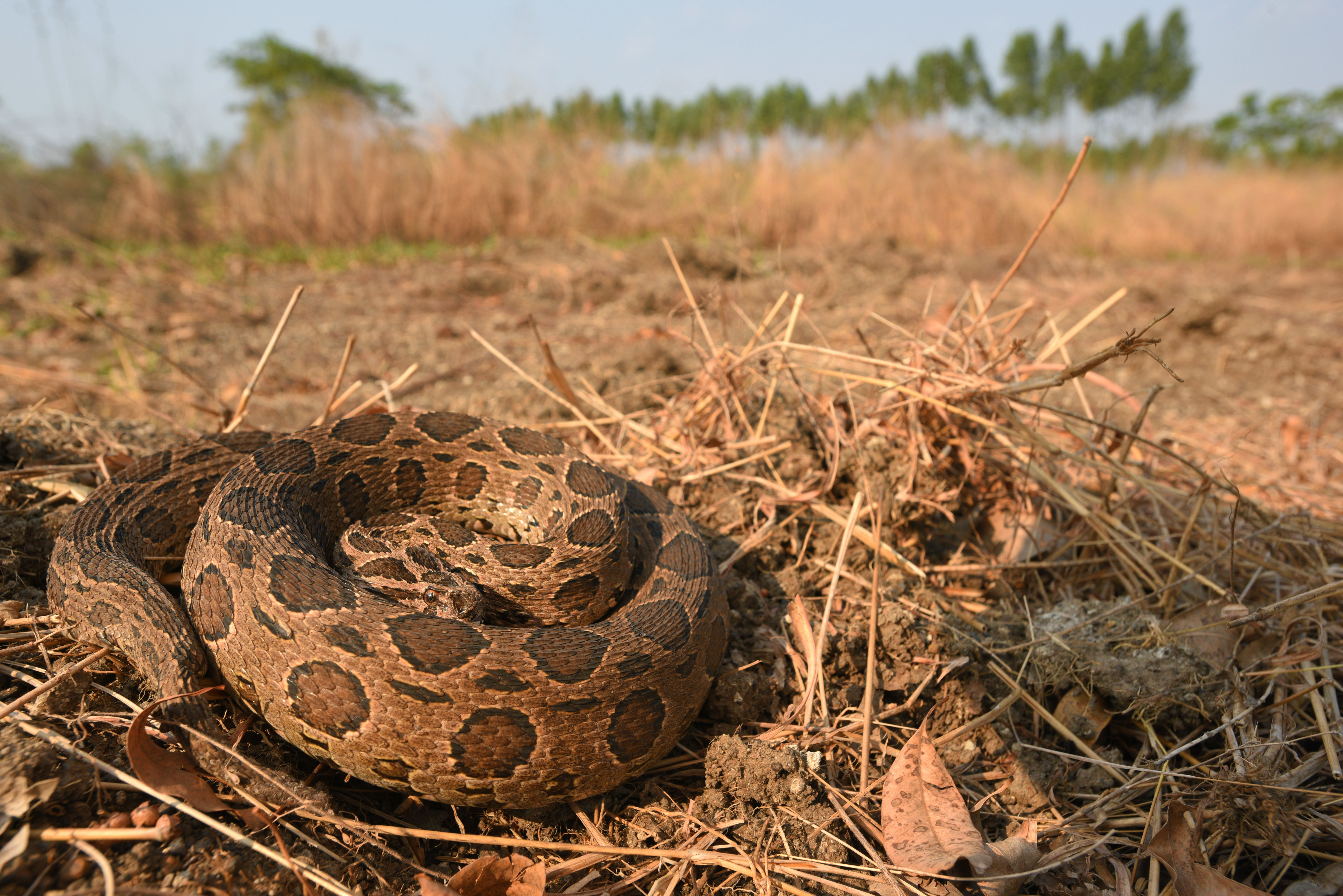 Daboia siamensis, Siamese Russell's Viper in its habitat in Thailand. Photo by